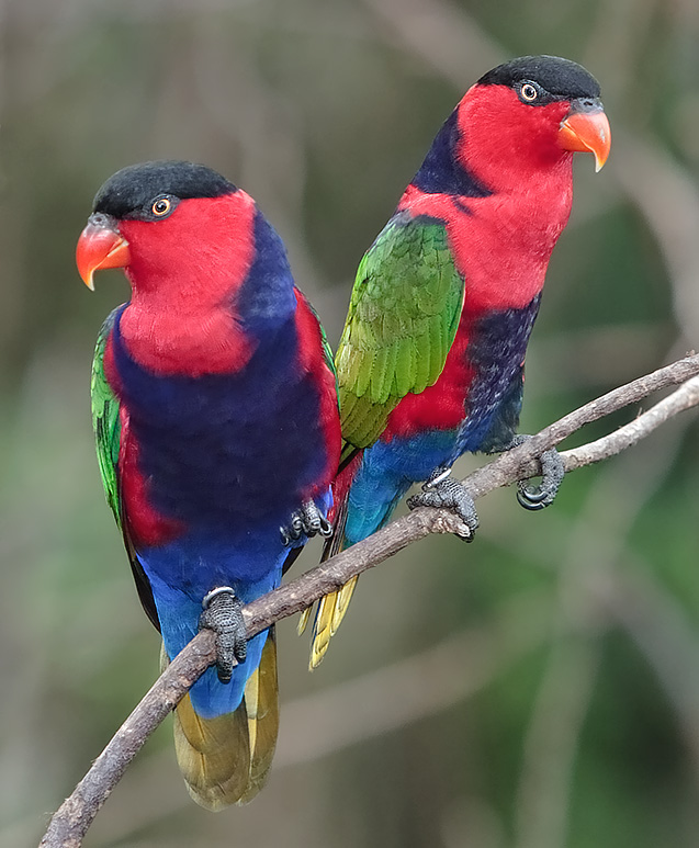 Black-capped Lory - Jurong Bird Park, Singapore